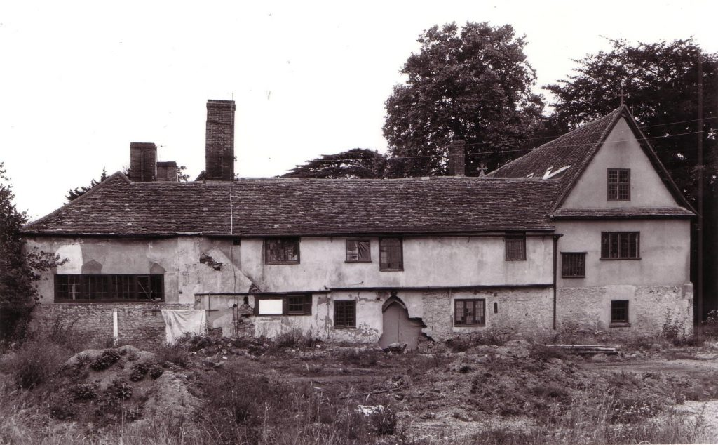 The Abbey, Sutton Courtenay, Oxfordshire, England